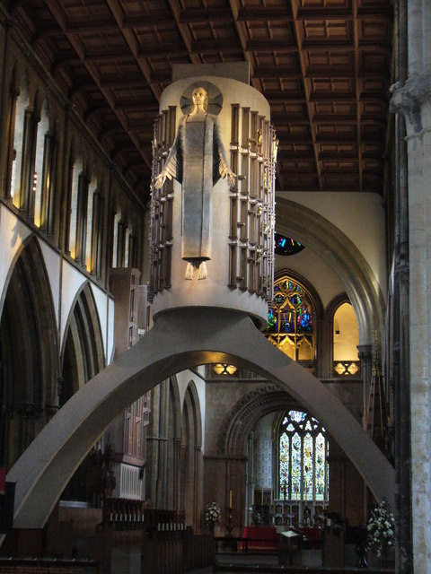 "Christ in Majesty" sculpture, Llandaff Cathedral, Llandaff, Cardiff, Wales.